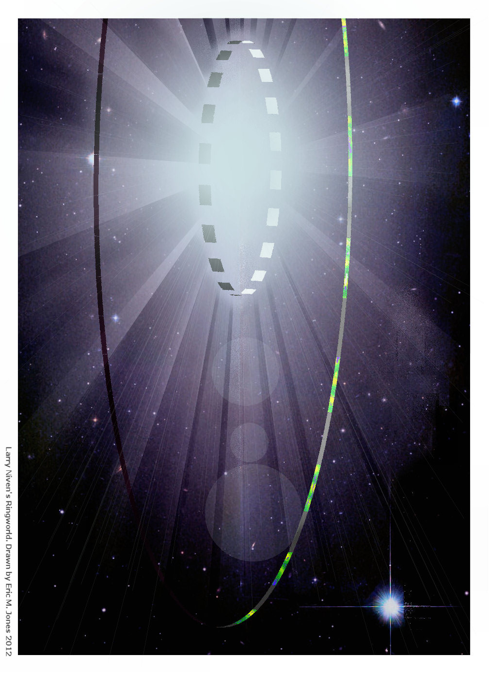 Larry Niven's Ringworld